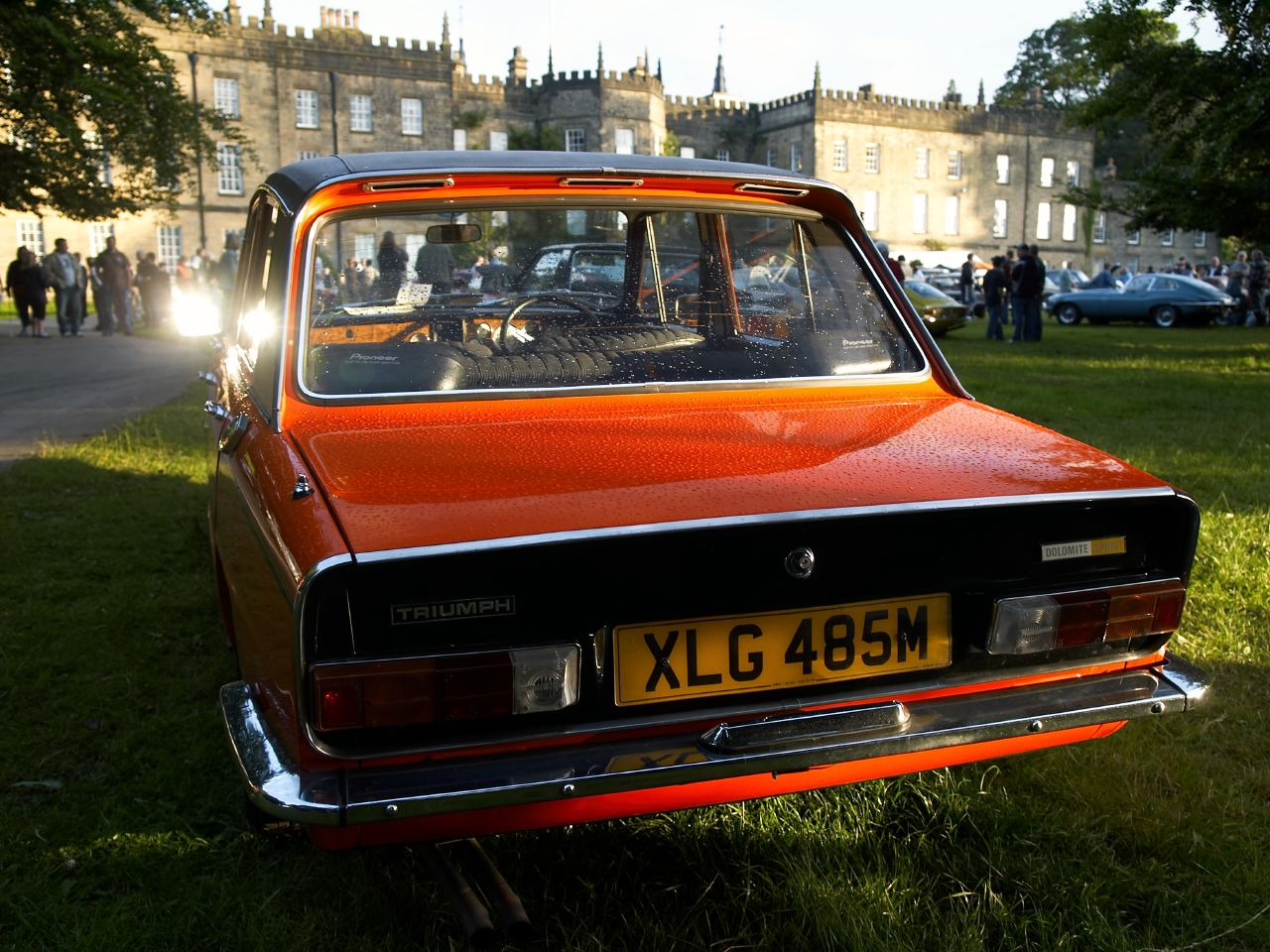 Triumph Dolomite @ Renishaw Classic Car Show.